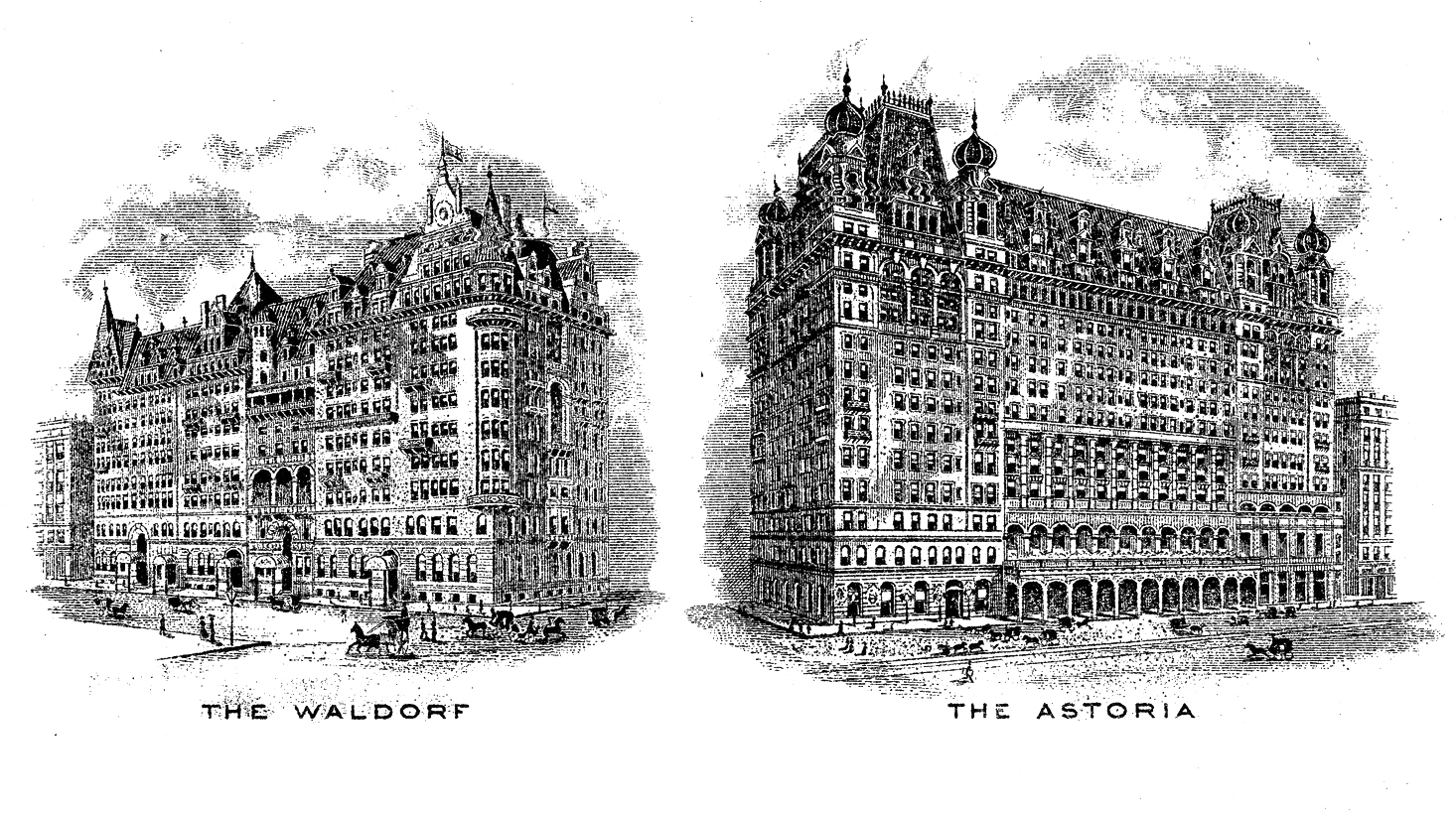 Engraved vignettes derived from an 1916 letterhead of the Bellevue-Stratford Hotel, Philadelphia, PA, with vignettes of both that hotel as well as those of then separate Waldorf and Astoria Hotels in New York City all of which were then operating under the management of George Boldt.